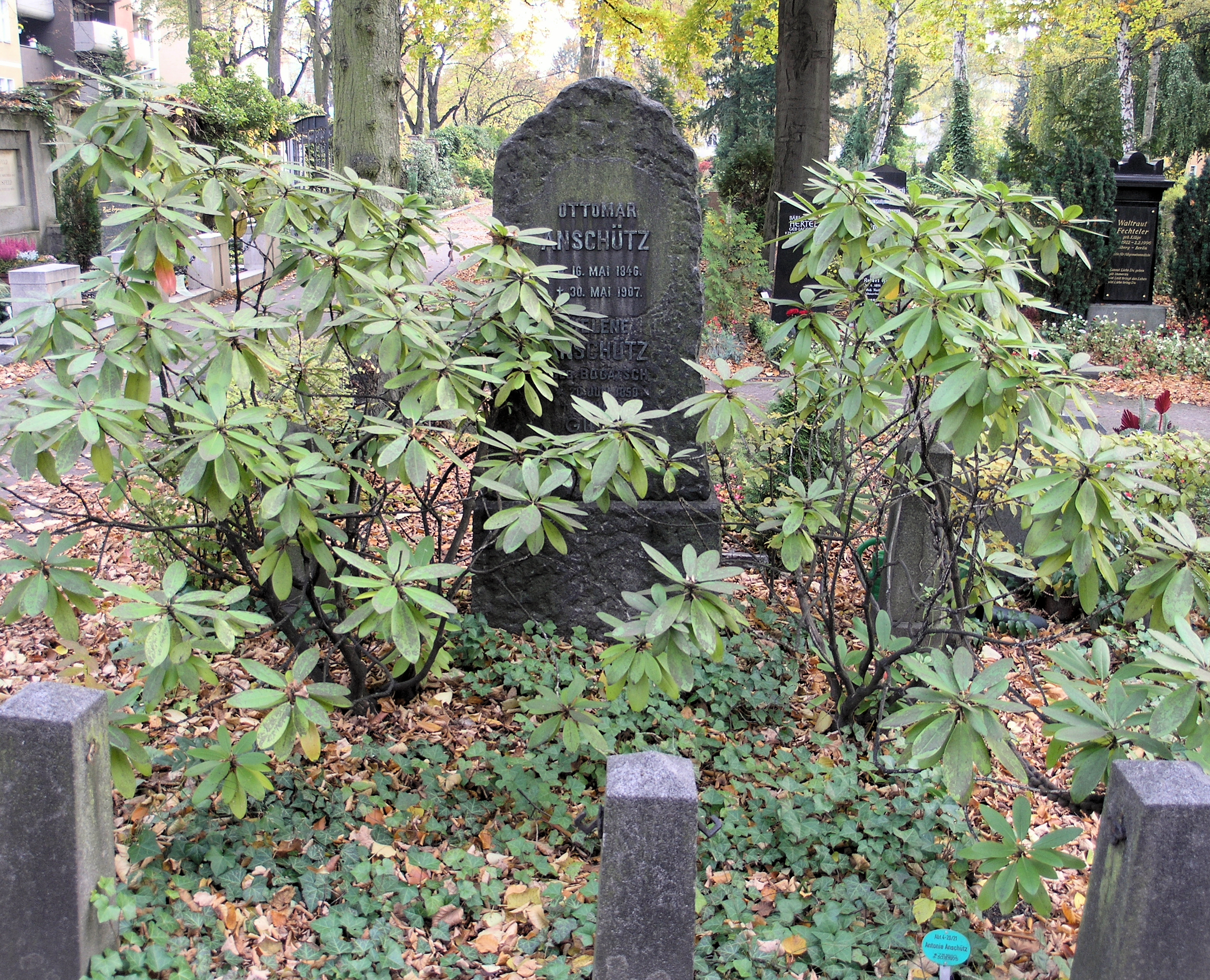 "Ehrengrab" (grave of honor), Ottomar Anschütz, Guido Anschütz, Stubenrauchstraße 43–45, Berlin-Friedenau, Germany Guido Anschütz:deutscher Erfinder